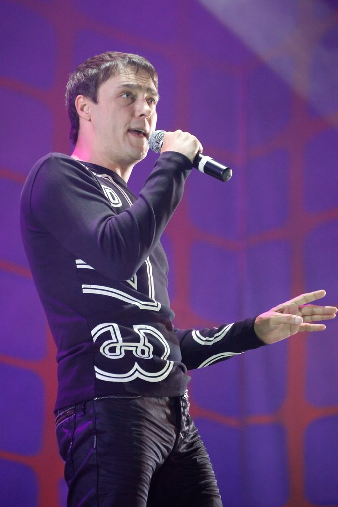 Yury Shatunov Кыргызча: Юрий Шатунов